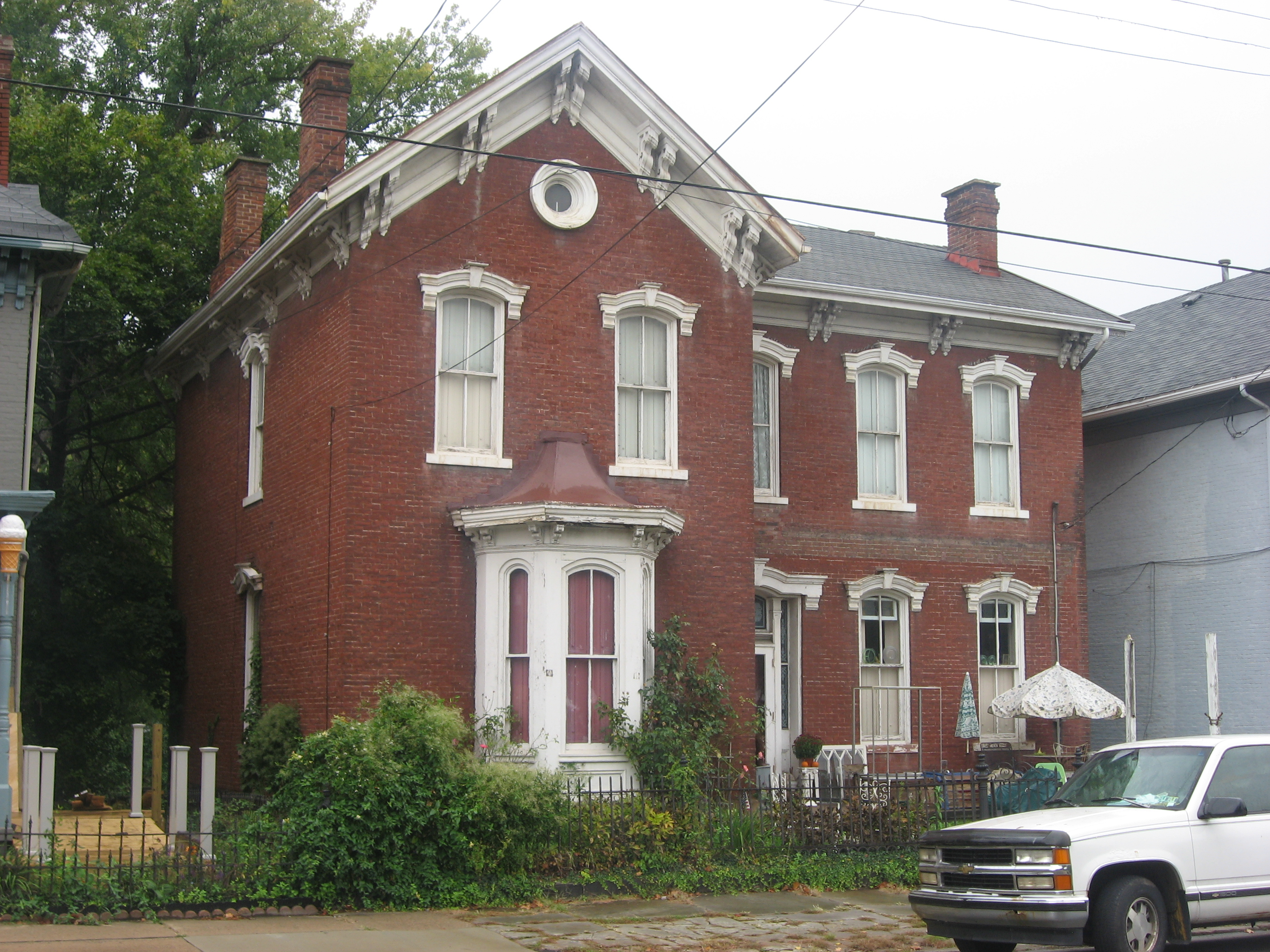 Front and western side of the David Longwell House, located at 711 W. Main Street (Pennsylvania Routes 88/837) in Monongahela, Pennsylvania, United States. Built in 1872, it is listed on the National Register of Historic Places.